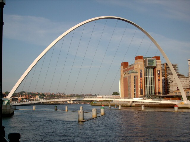 A full view of the Gateshead Millennium Bridge from the Newcastle side - taken by myself.